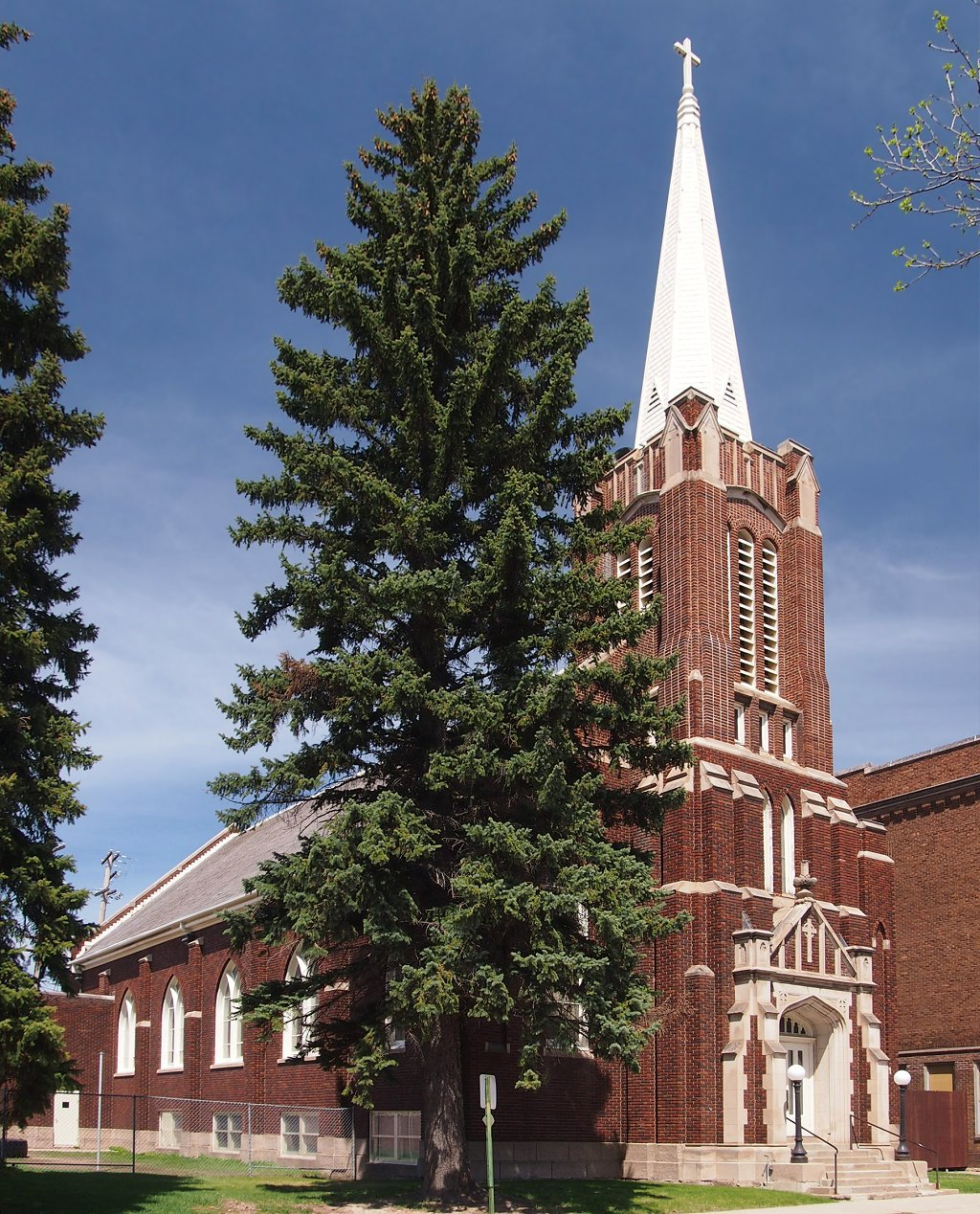 Church of St. John the Baptist, 309 S. 3rd Avenue, Virginia, Minnesota, USA. Viewed from the southwest.